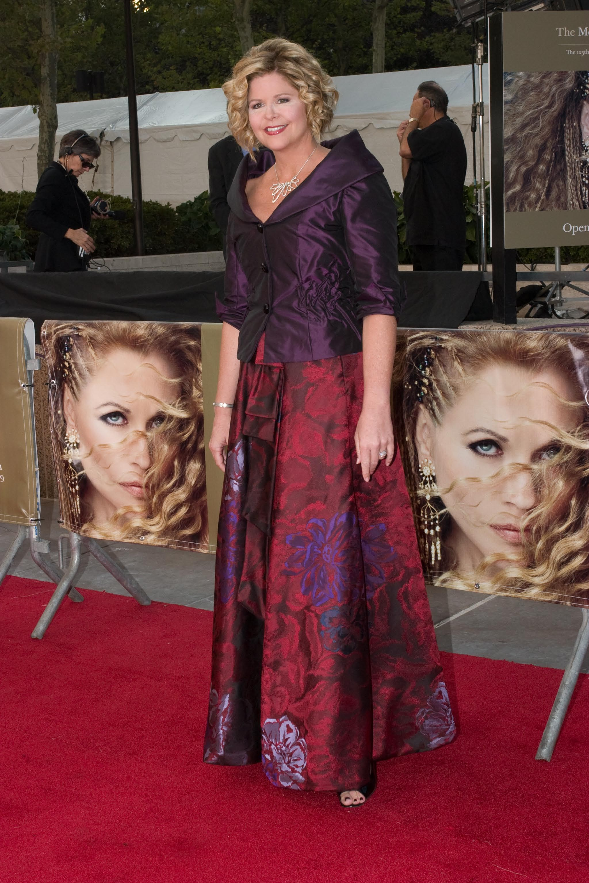 American mezzo-soprano Susan Graham, at the Metropolitan Opera opening in 2008. © Rubenstein, photographer Martyna Borkowski